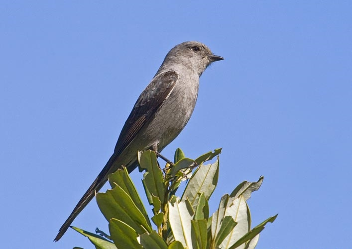 Muscipipra vetula at Agulhas Negra Road, Itamonte, Minas Gerais, Brazil